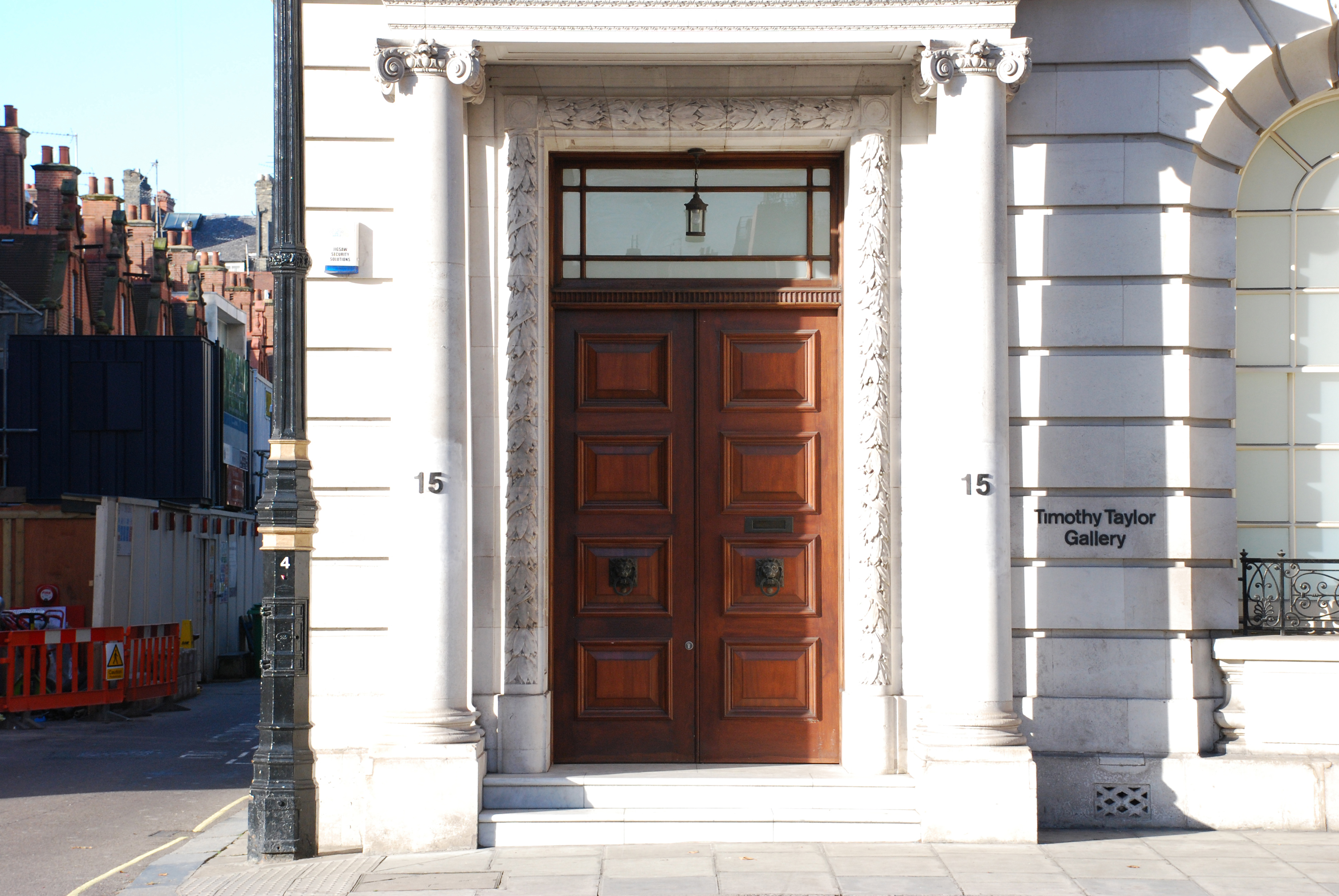 Timothy Taylor Gallery 15 Carlos Place, London, W1K 2EX T: +44 (0)207409 3344 F: +44 (0)207409 1316 Monday to Friday 10am - 6pm Saturday 10am - 2pm